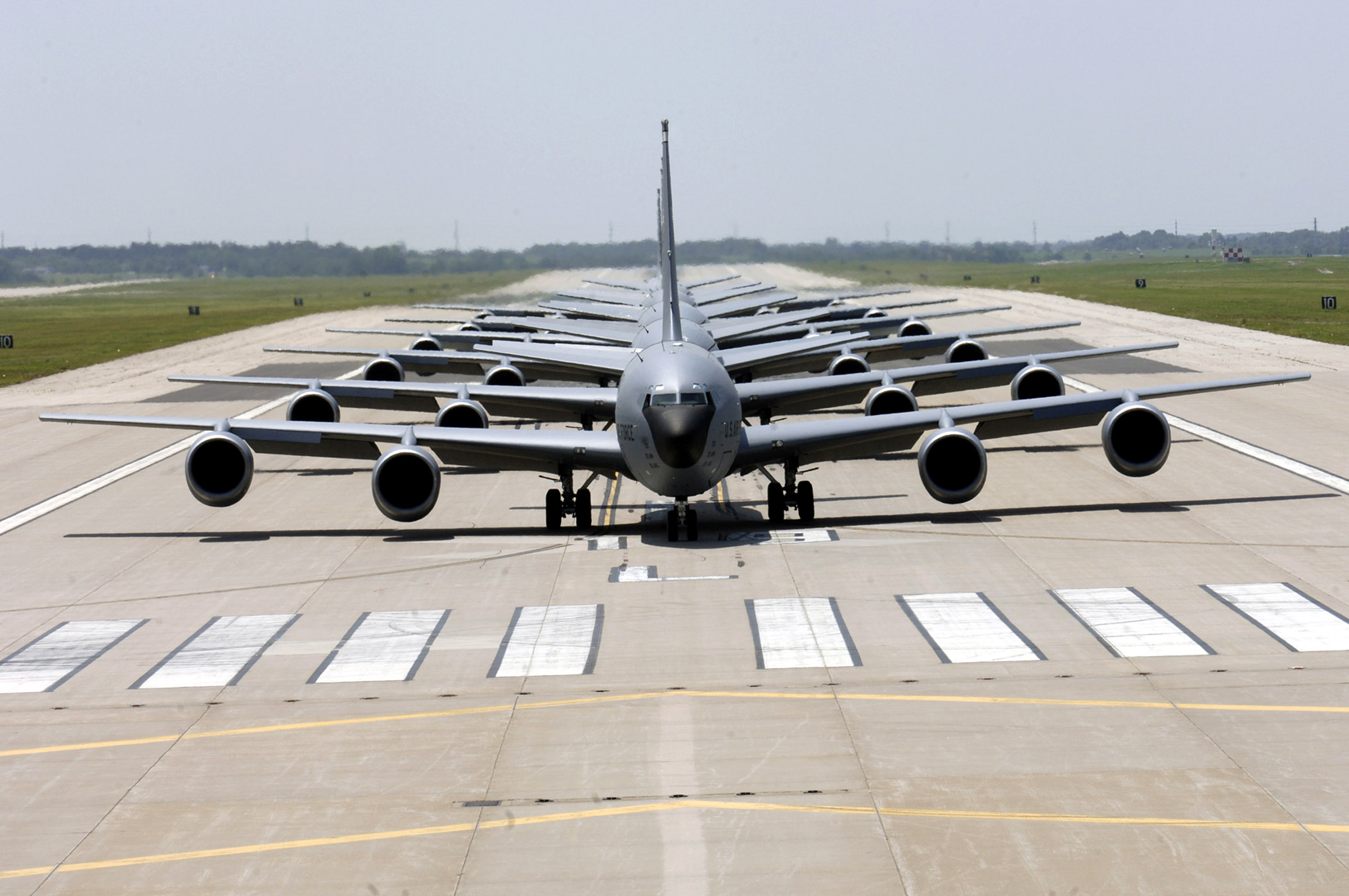 Six KC-135 Stratotankers demonstrate the elephant walk formation as they taxi down a runway right behind each other during a generation exercise Aug. 5, 2007 at McConnell Air Force Base, Kan. The exercise showcased McConnell AFB aircrews' capability to prepare a flight and take off within minutes of being notified of a mission. (U.S. Air Force photo/Airman 1st Class Laura Suttles)